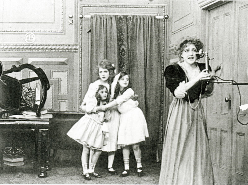 Gladys Egan, Mary Pickford, Adele DeGarde and Marion Leonard (from left) on a film still from The Lonely Villa (1909), directed by David Wark Griffith, screenplay by Mack Sennett